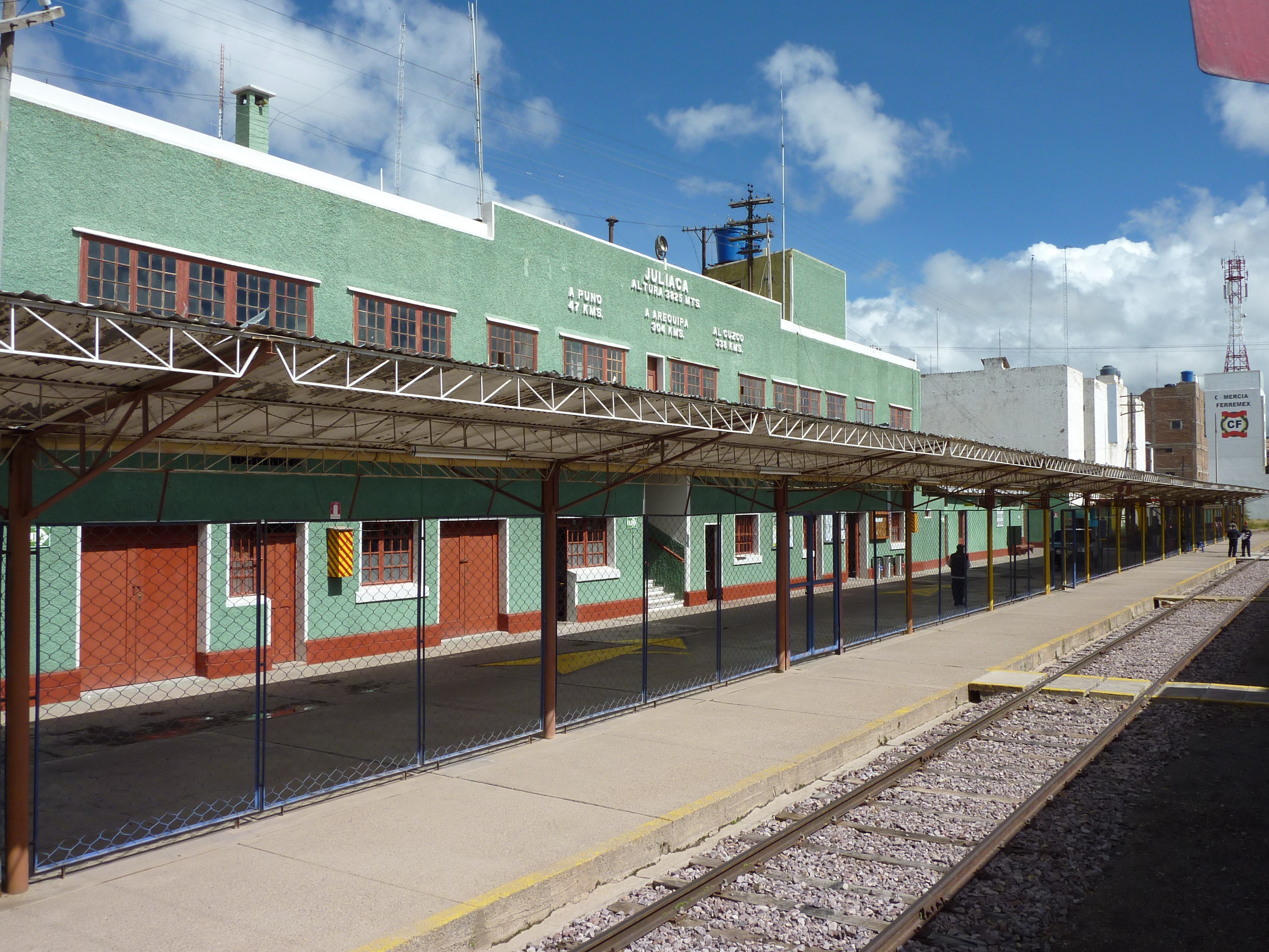 Railway station Juliaca in Peru